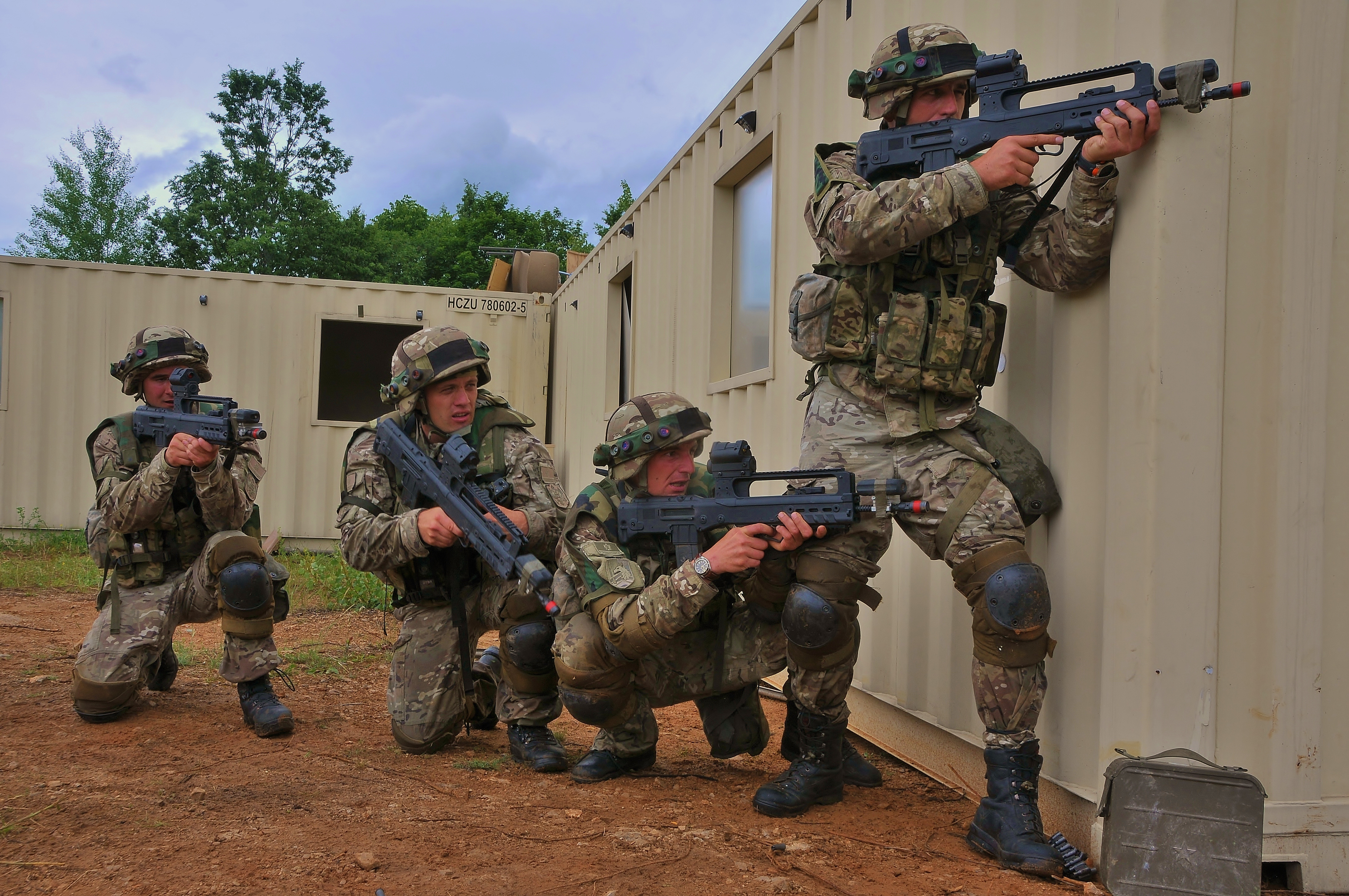 Montenegrin Army soldiers of 1st platoon return fire around the coner of a building at the opposing force during the Immediate Response 2012 (IR12) training event held in Slunj, Croatia on June 5,2012 IR12 is a multinational tactical field training exercise that will involve more than 700 personnel primarily from the U.S. Army Europe’s 2nd Cavalry Regiment and Croatian armed forces, with contingents from Albania, Bosnia-Herzegovina, Montenegro and Slovenia. Macedonia and Serbia will send observers to the exercise. The exercise is a part of USEUCOM's joint training and exercise program designed to enhance joint and combined interoperability between the U.S. Army, U.S. Air Force, Croatian Armed Forces and partner nations, and will help prepare participants to operate successfully in a joint, multinational, interagency, integrated environment. ( U.S. Army photo by PFC.Derek Hamilton/ Released )